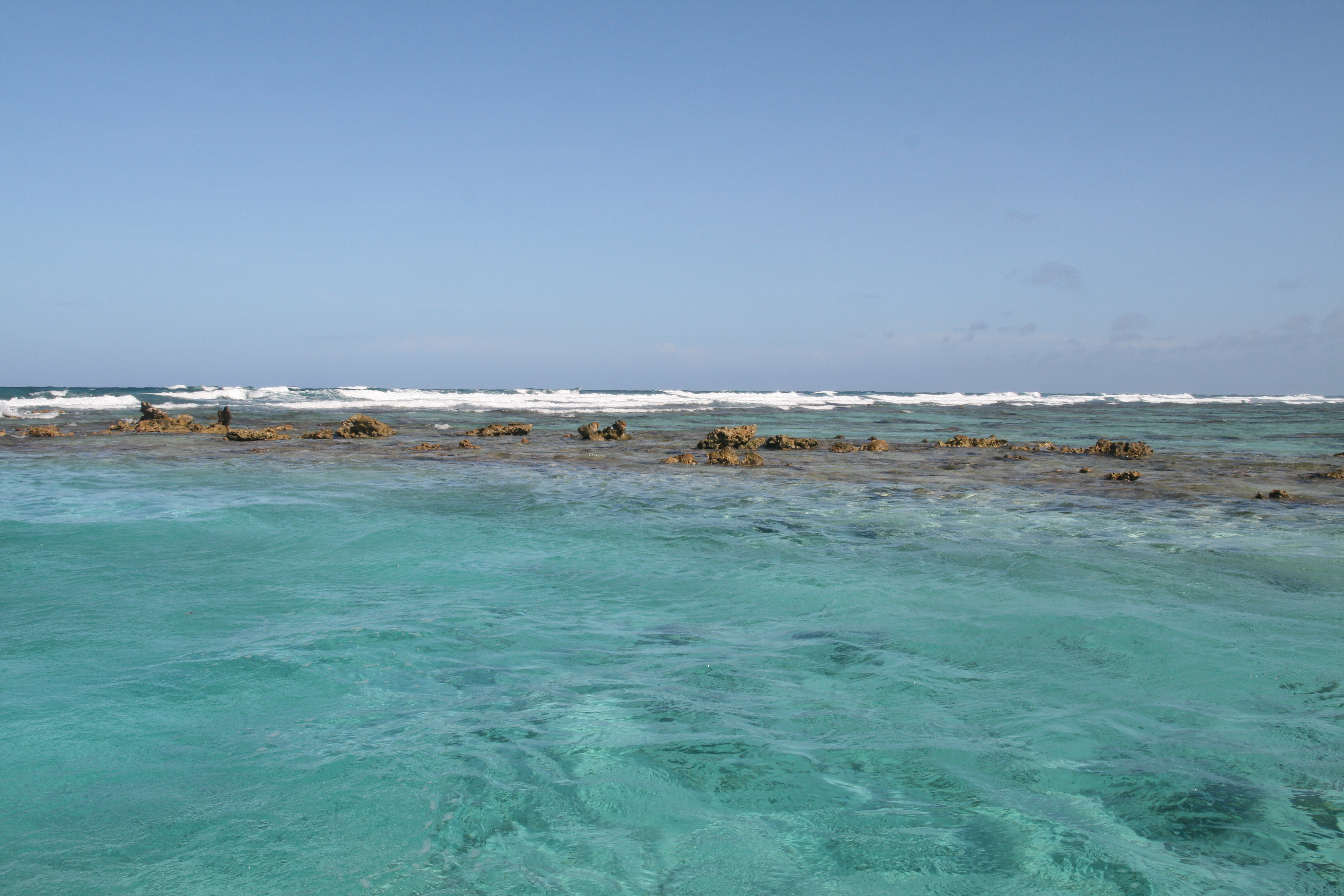 Belize Barrier Reef, Ambergris Caye, Belize.